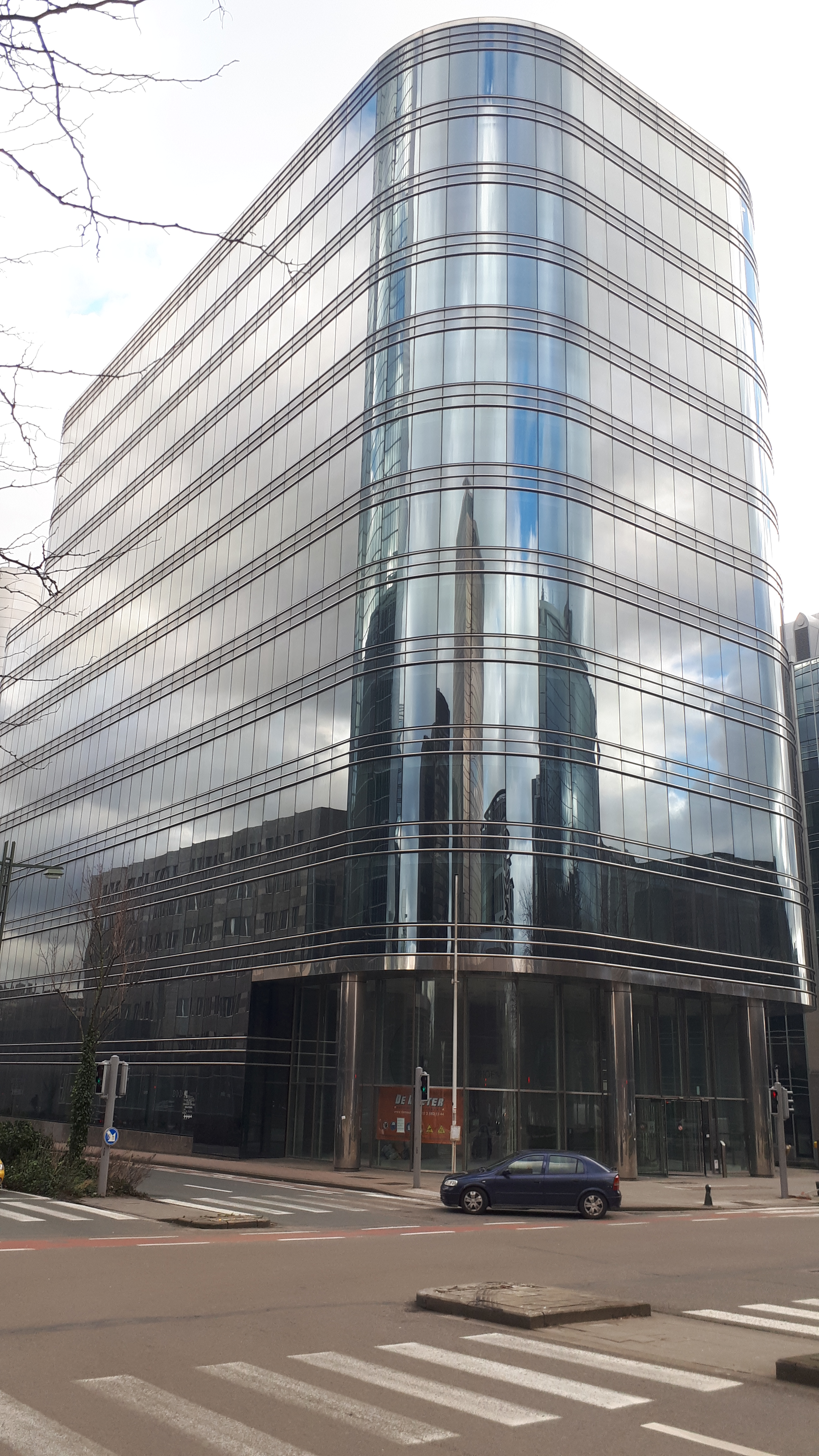 Phoenixgebouw